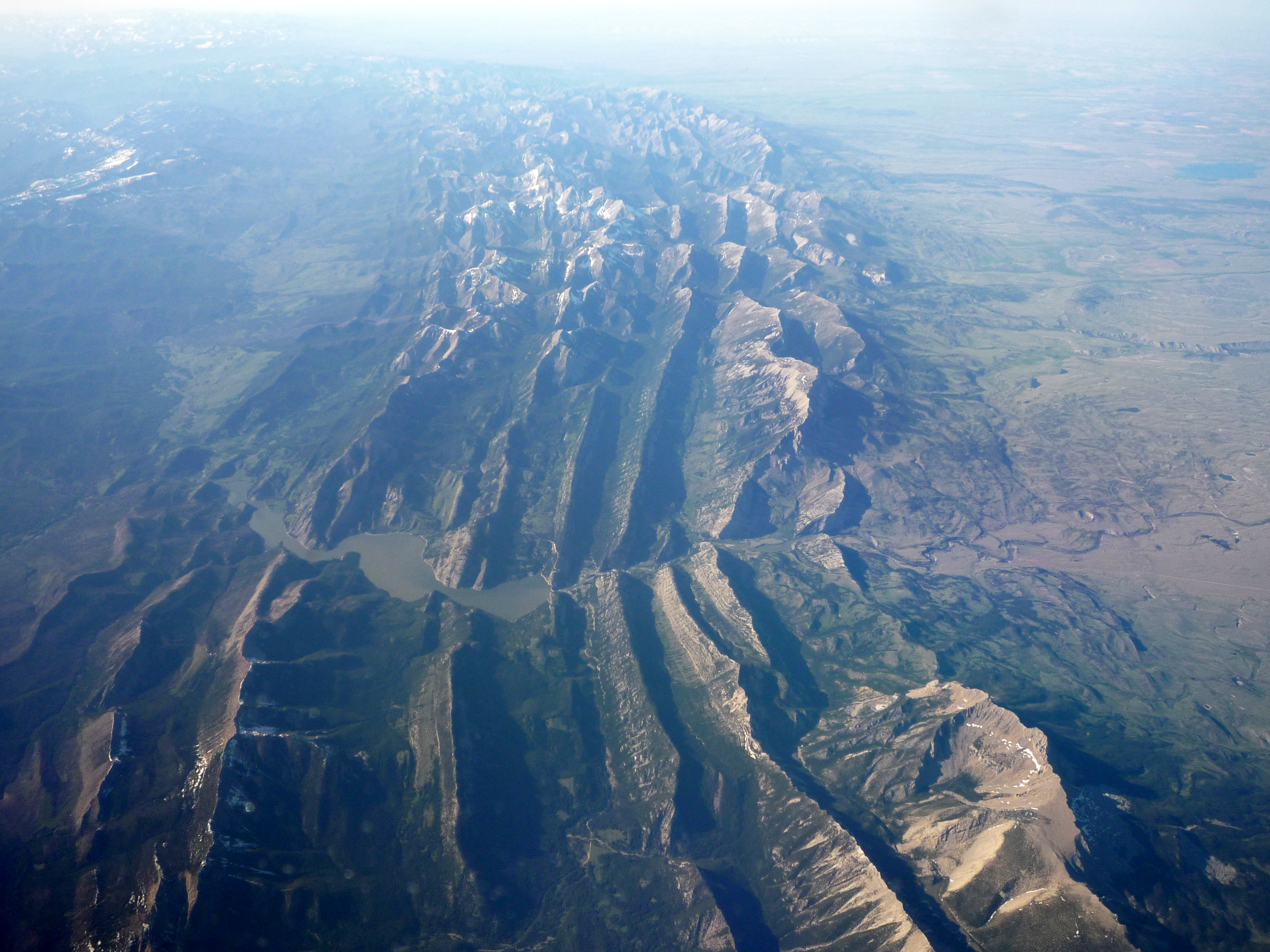 Aerial photo of the Lewis Overthrust; the easternmost (right) portion is the Rocky Mountain Front. The waterbody is Gibson Reservoir, west of Augusta, Montana.:en:Montana, USA.